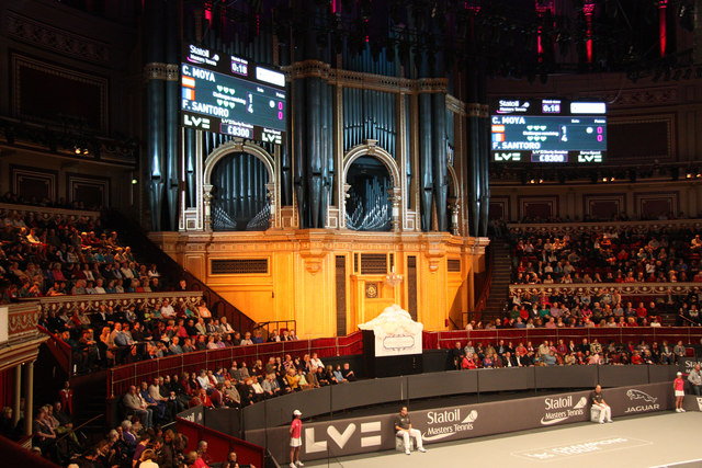 The Grand Organ in The Royal Albert Hall during the 2012 Masters Tennis tournament. By Henry 'Father' Willis in 1871.